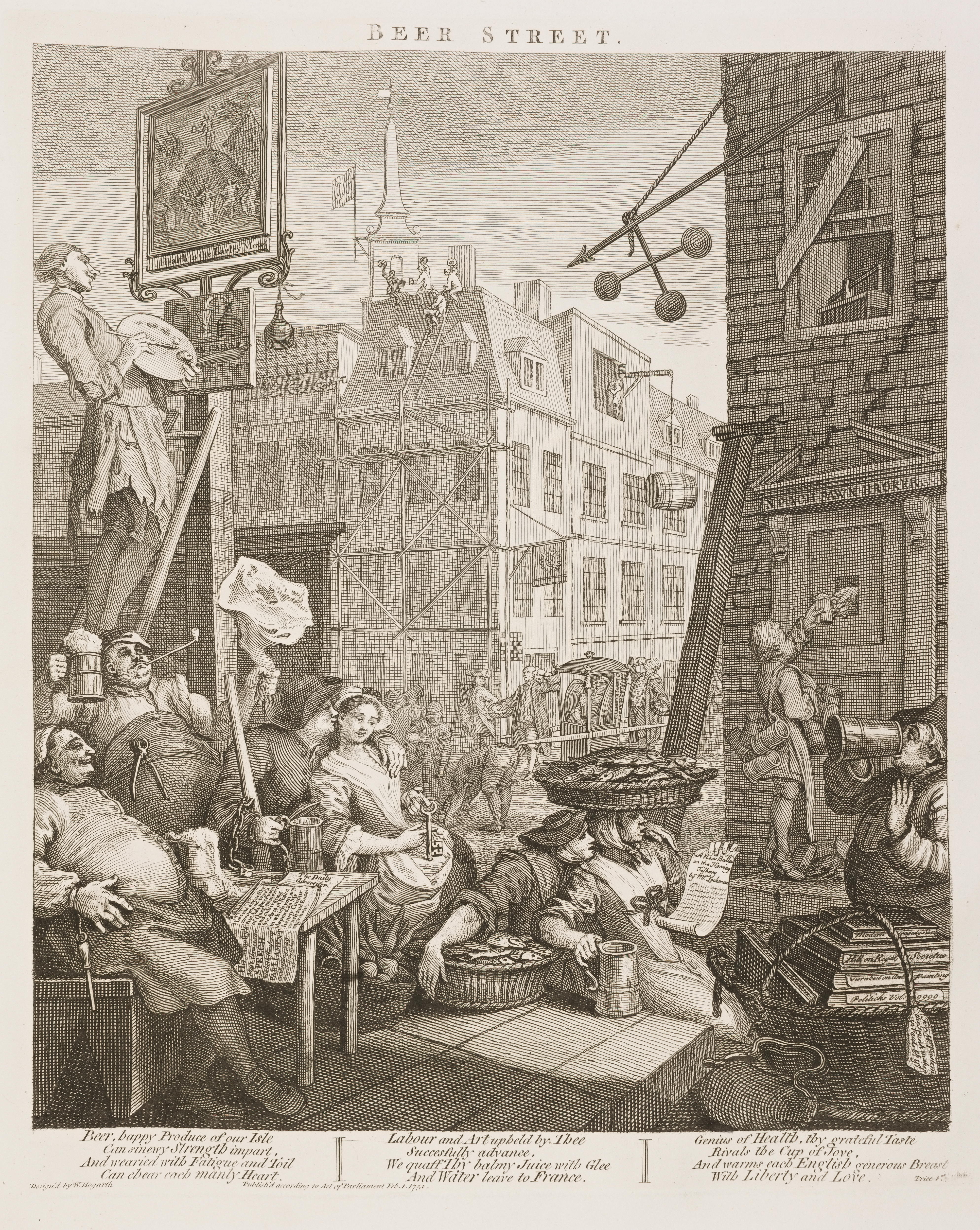 William Hogarth's Beer Street